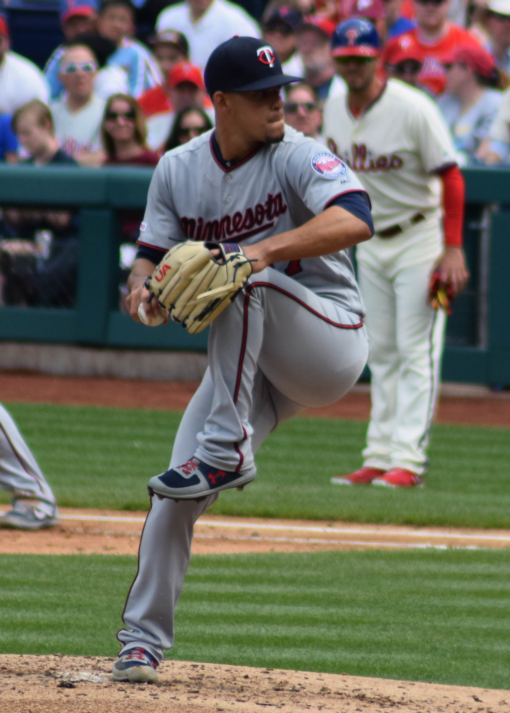 Jose Berrios delivers a pitch for the Minnesota Twins during a 2019 game at Citizens Bank Park in Philadelphia